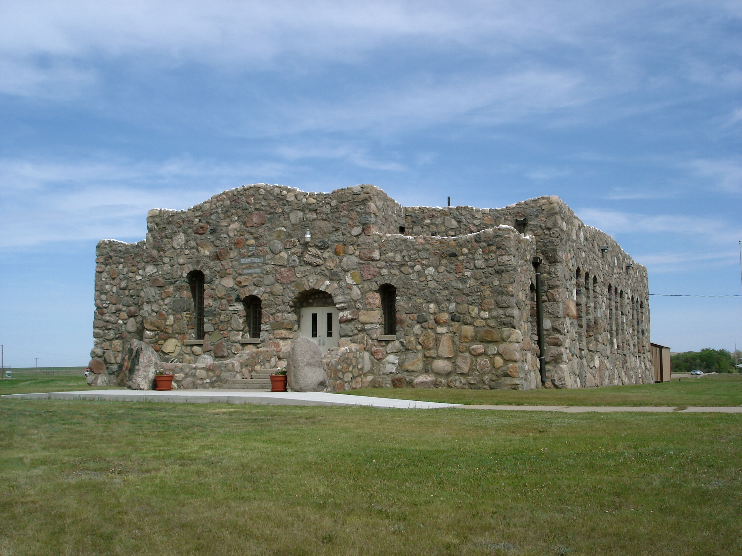 This is a photograph of the world famous Paul Broste Rock Museum in Parshall, North Dakota.